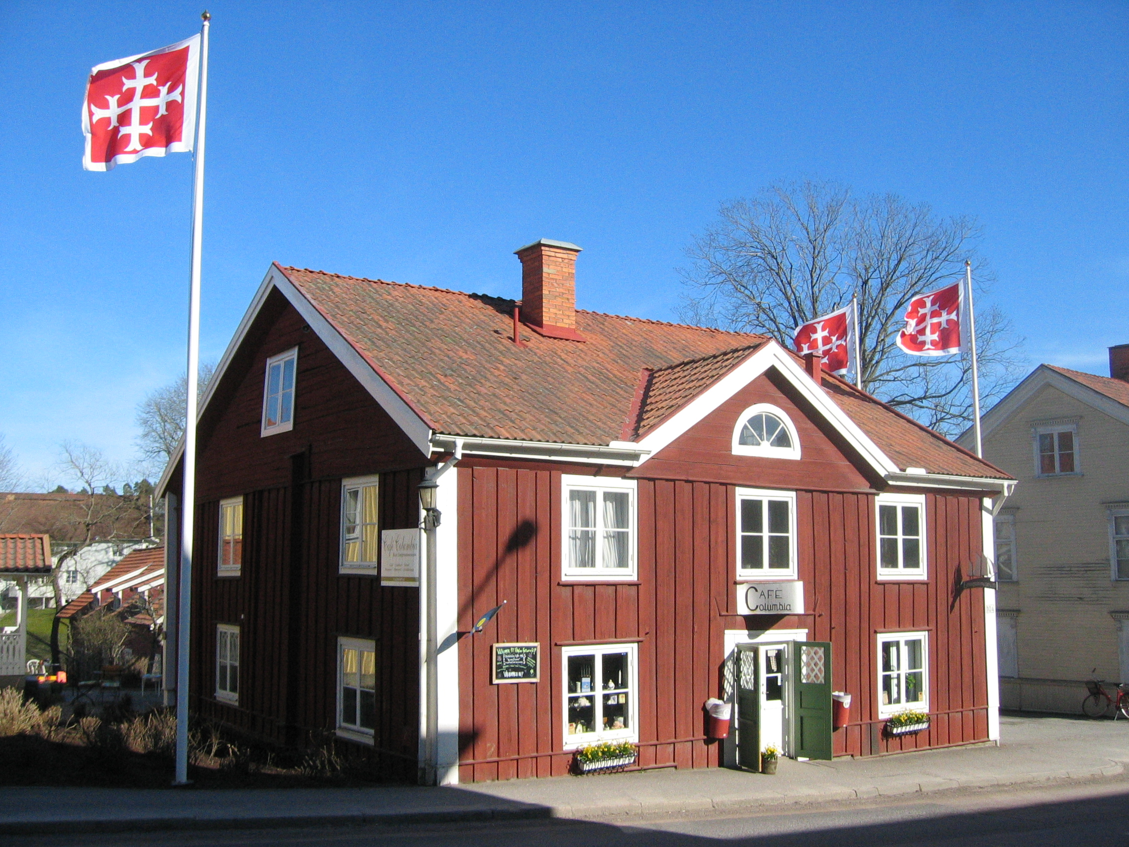 Café Columbia & emigration museum in Kisa, Sweden. Allegedly, around the turn of the century 1900 this was the first café in Sweden to serve perculated (not boiled) coffee, a concept that the owner had brought back from the United States. The flag of the municipality of Kinda can be seen on poles around the cafe.